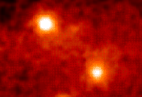 What if you could "see" in gamma-rays? If you could, these two spinning neutron stars or pulsars would be among the brightest objects in the sky. This computer processed image shows the Crab Nebula pulsar (below and right of center) and the Geminga pulsar (above and left of center) in the "light" of gamma-rays. Gamma-ray photons are more than 10,000 times more energetic than visible light photons and are blocked from the Earths's surface by the atmosphere. This image was produced by the high energy gamma-ray telescope "EGRET" on board NASA's orbiting Compton Observatory satellite.